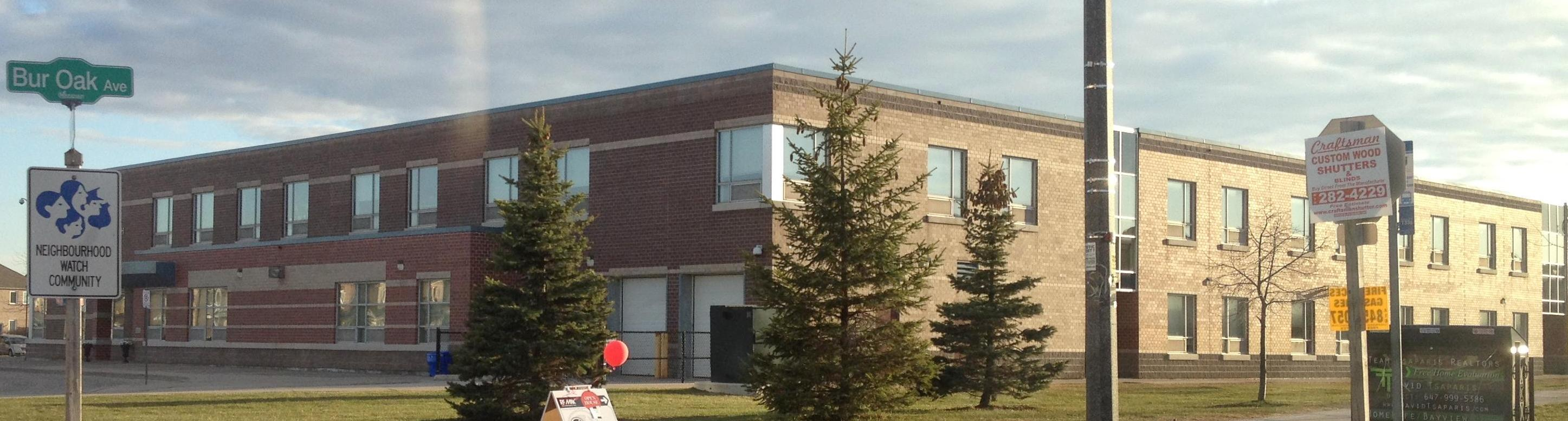 Greensborough Public School, located at Greensborough, Markham, Ontario.